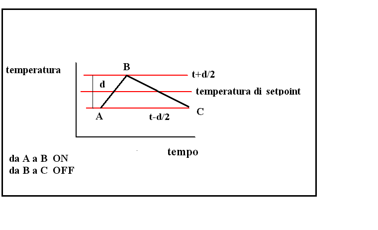 Schematic graph of thermostat operation